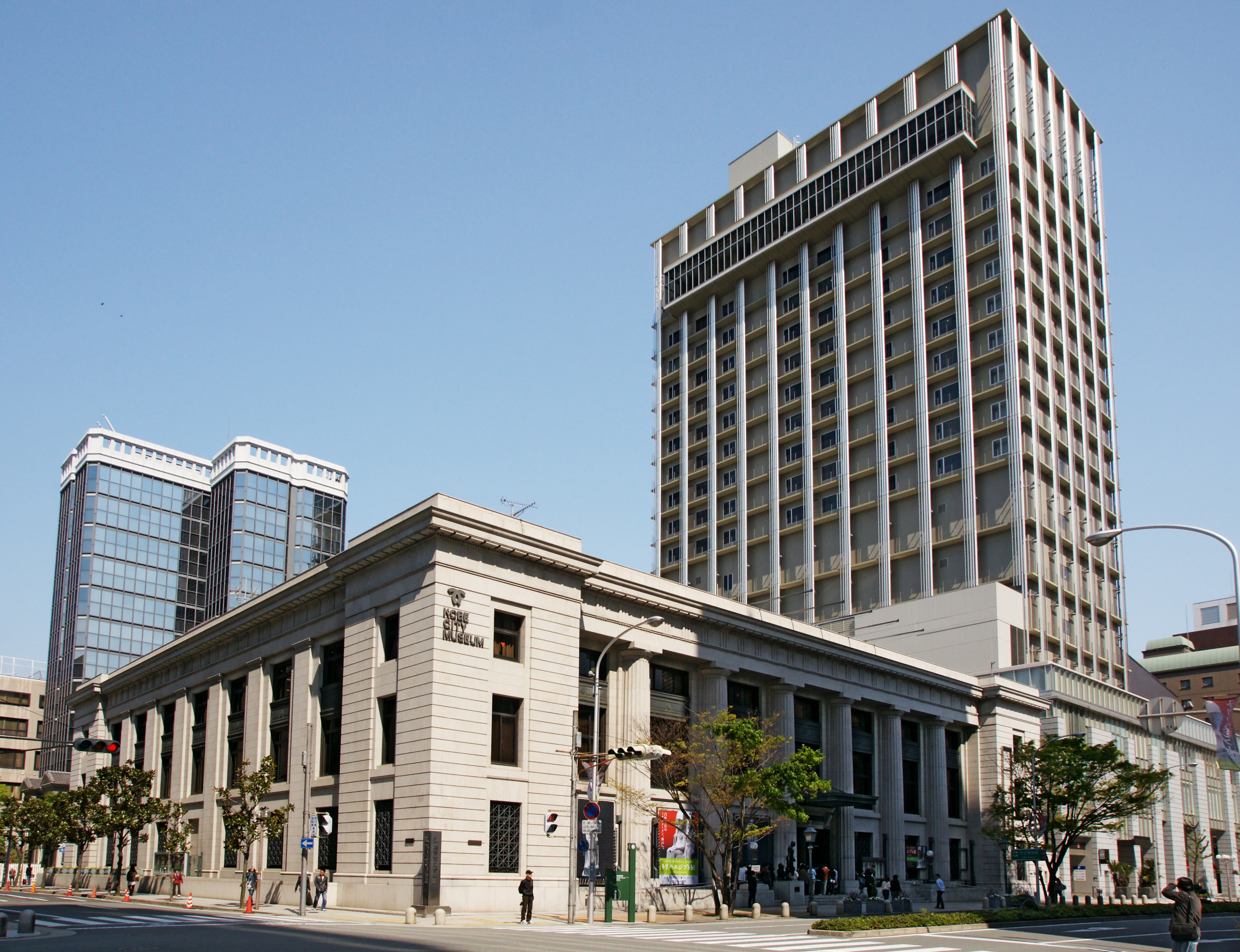 Kobe City Museum in Kobe, Hyogo prefecture, Japan